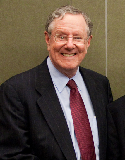 Steve Forbes at a Hudson Union Society event in June 2009.